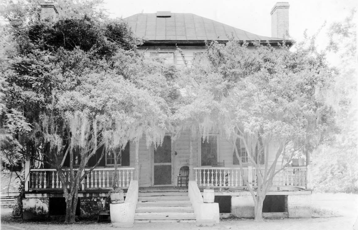 This photograph shows the original plantation house at Boone Hall in Charleston County, South Carolina.